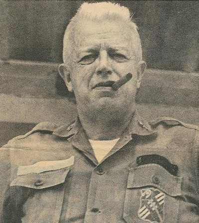 Thomas N. Courvousie, Assistant Commandant of Cadets at The Citadel